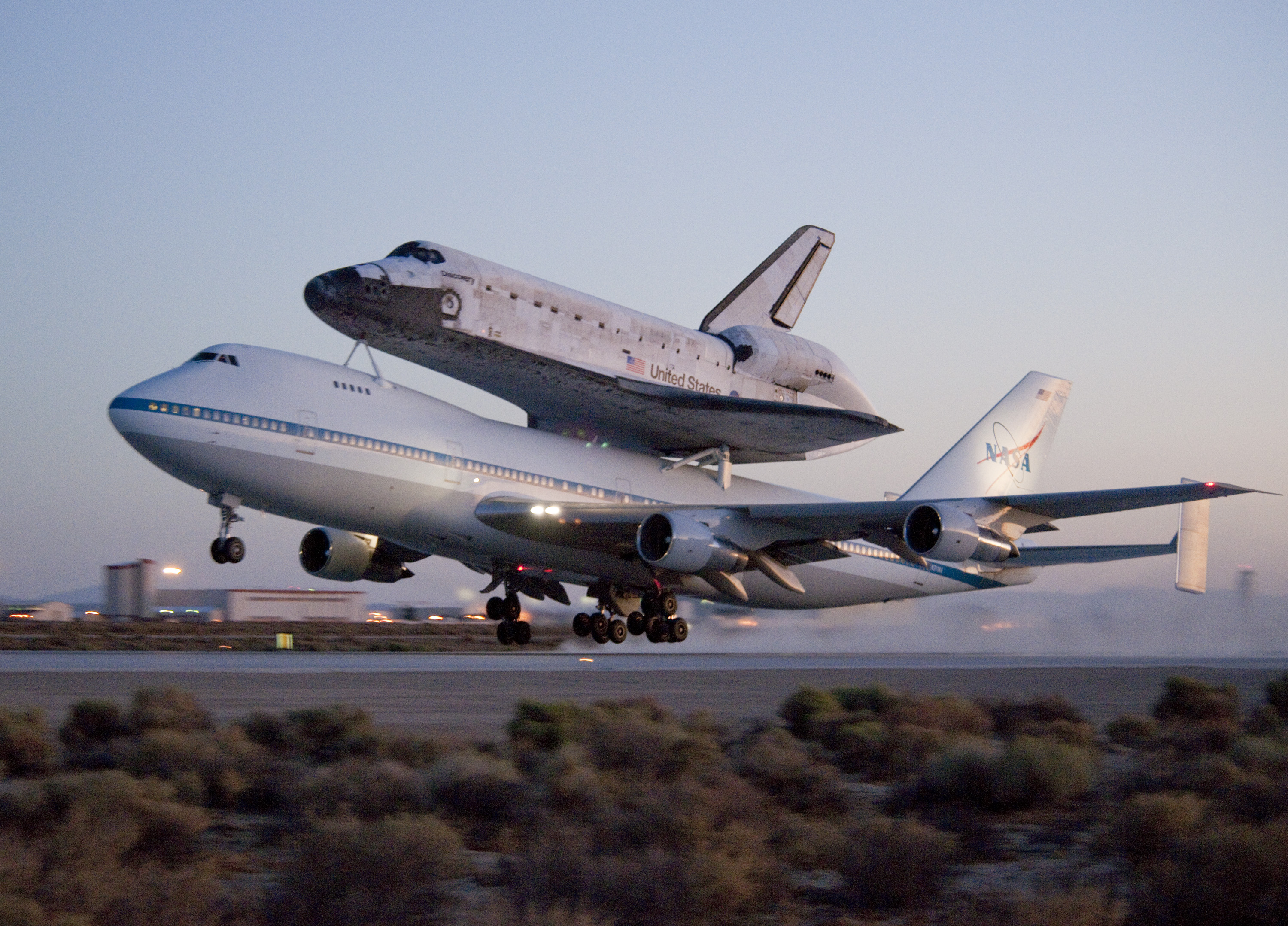 Space shuttle Discovery and its modified 747 carrier aircraft lift off from Edwards Air Force Base early in the morning of Sept. 20, 2009 on the first leg of its ferry flight back to the Kennedy Space Center in Florida. Discovery had landed at Edwards Sept. 11 after the STS-128 mission to the International Space Station.